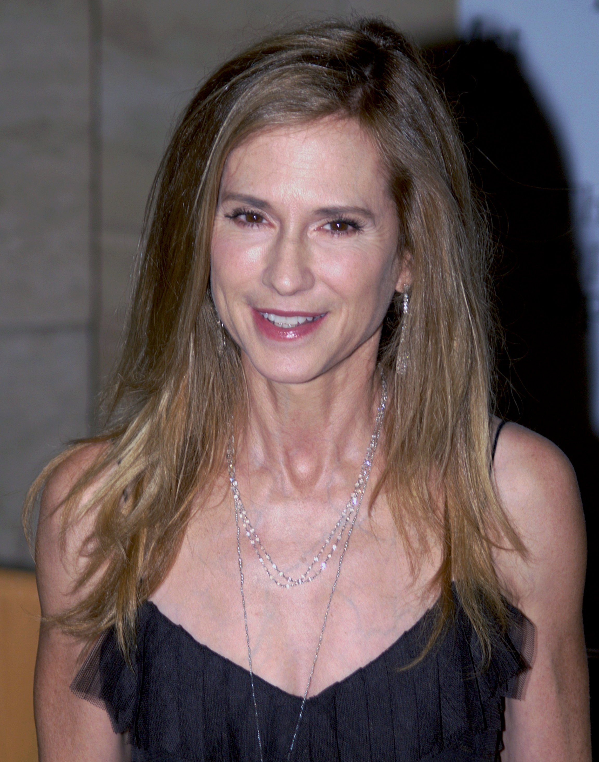 Holly Hunter at Metropolitan Opera's 2010-11 Season Opening Night - "Das Rheingold"